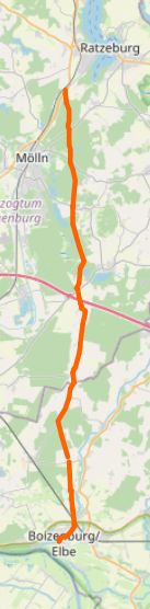 The Boizenburger Frachtweg is an ancient trade route between Boizenburg and Fredeburg (Ratzeburg)This map of Boizenburg/Elbe was created from OpenStreetMap project data, collected by the community. This map may be incomplete, and may contain errors. Don't rely solely on it for navigation.